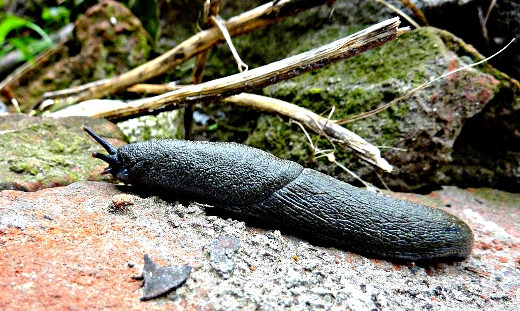 I took this photo of a large slug on a trip to India in 2010